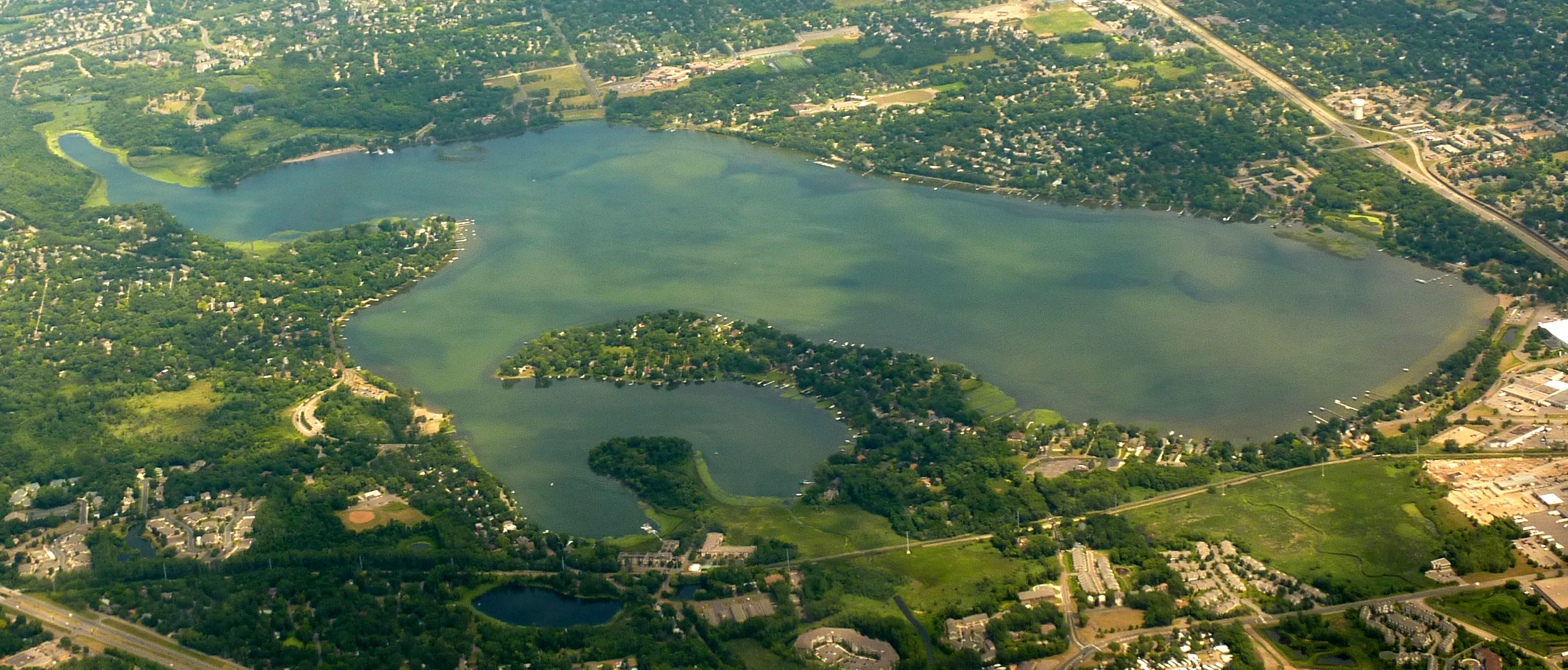 Aerial photo of Medicine Lake, Minnesota, USA, which is the peninsula jutting into the eponymous lake.